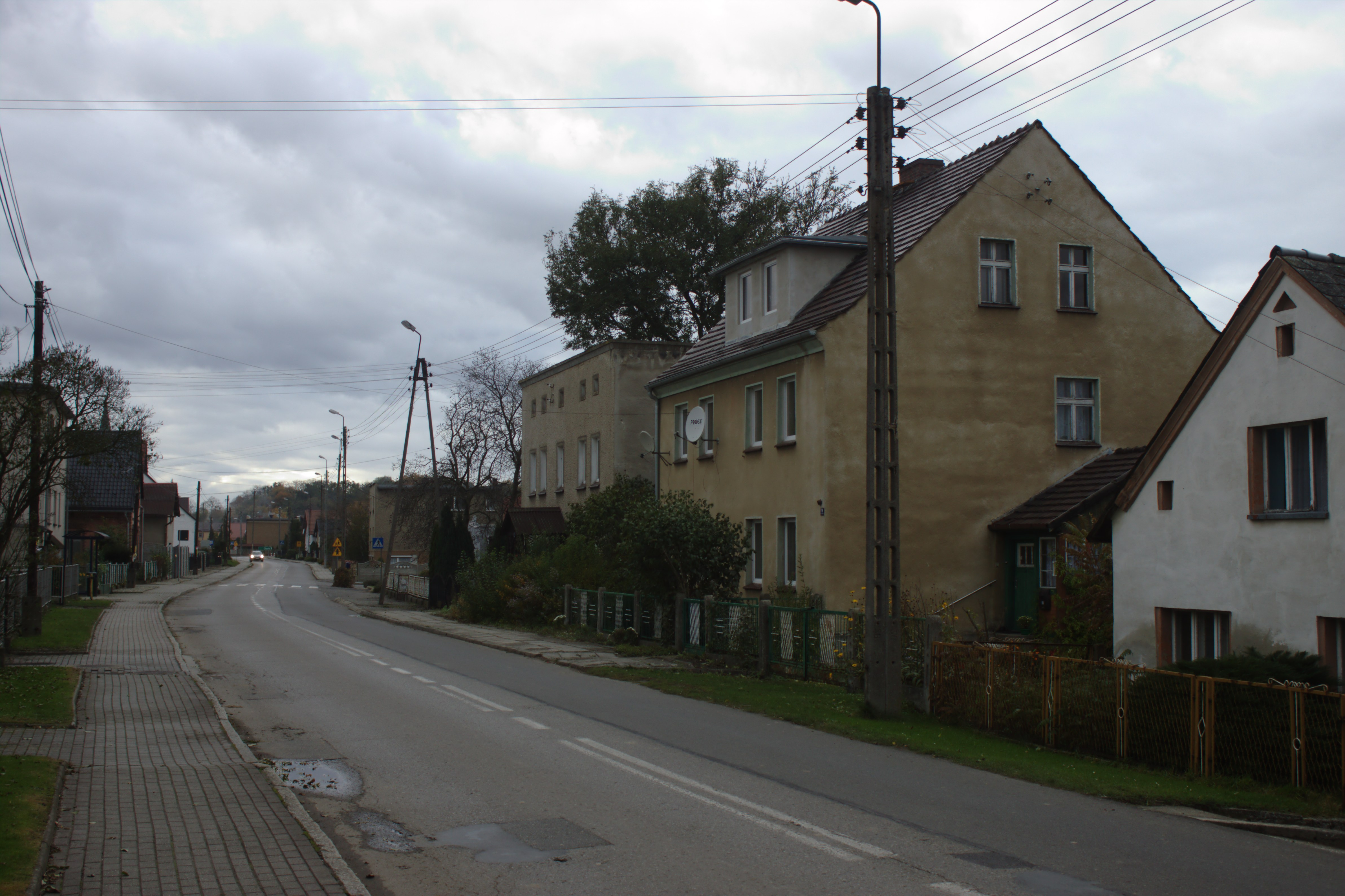 Buildings in the village of Rudnik near Racibórz, Poland